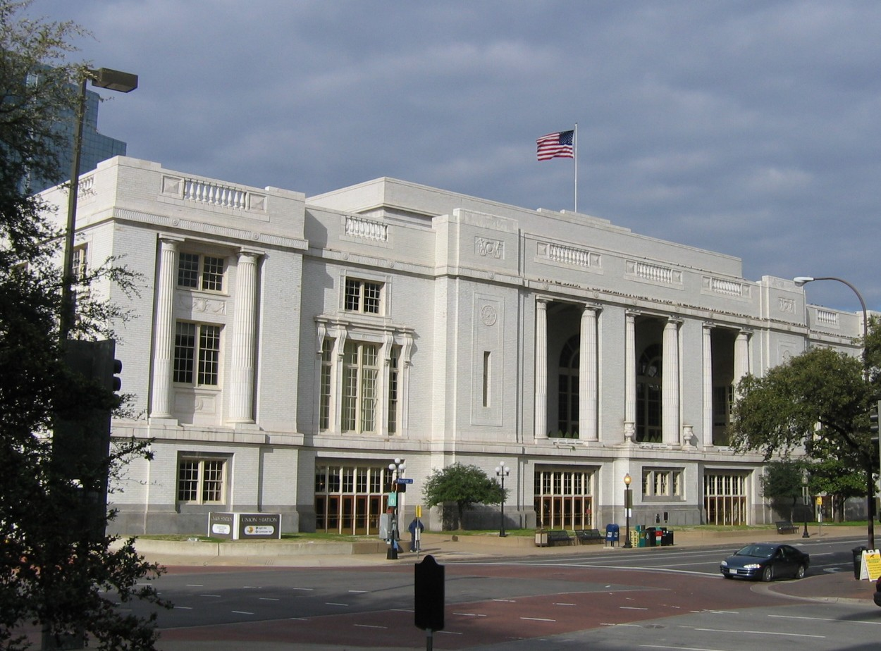 View of Dallas Union Station